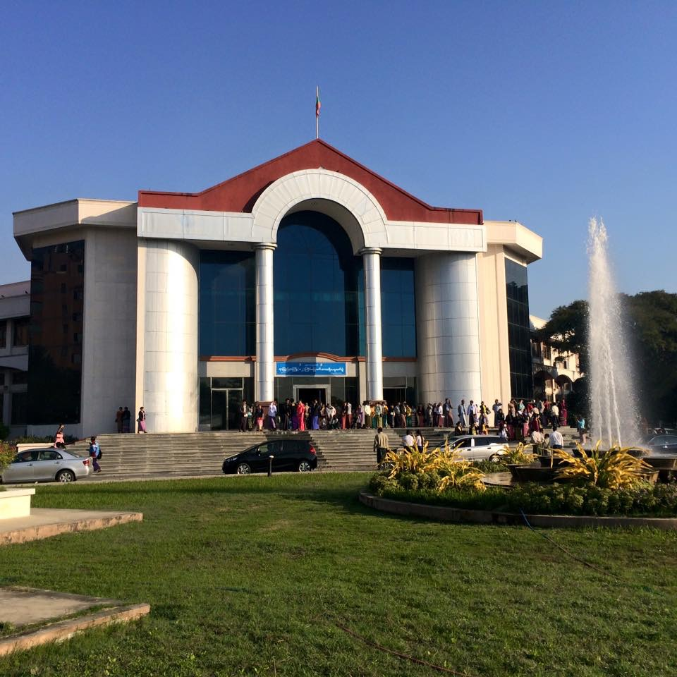 Mandalay, 78 road, near Thake Pan road.Chan Mya Thar Si road.